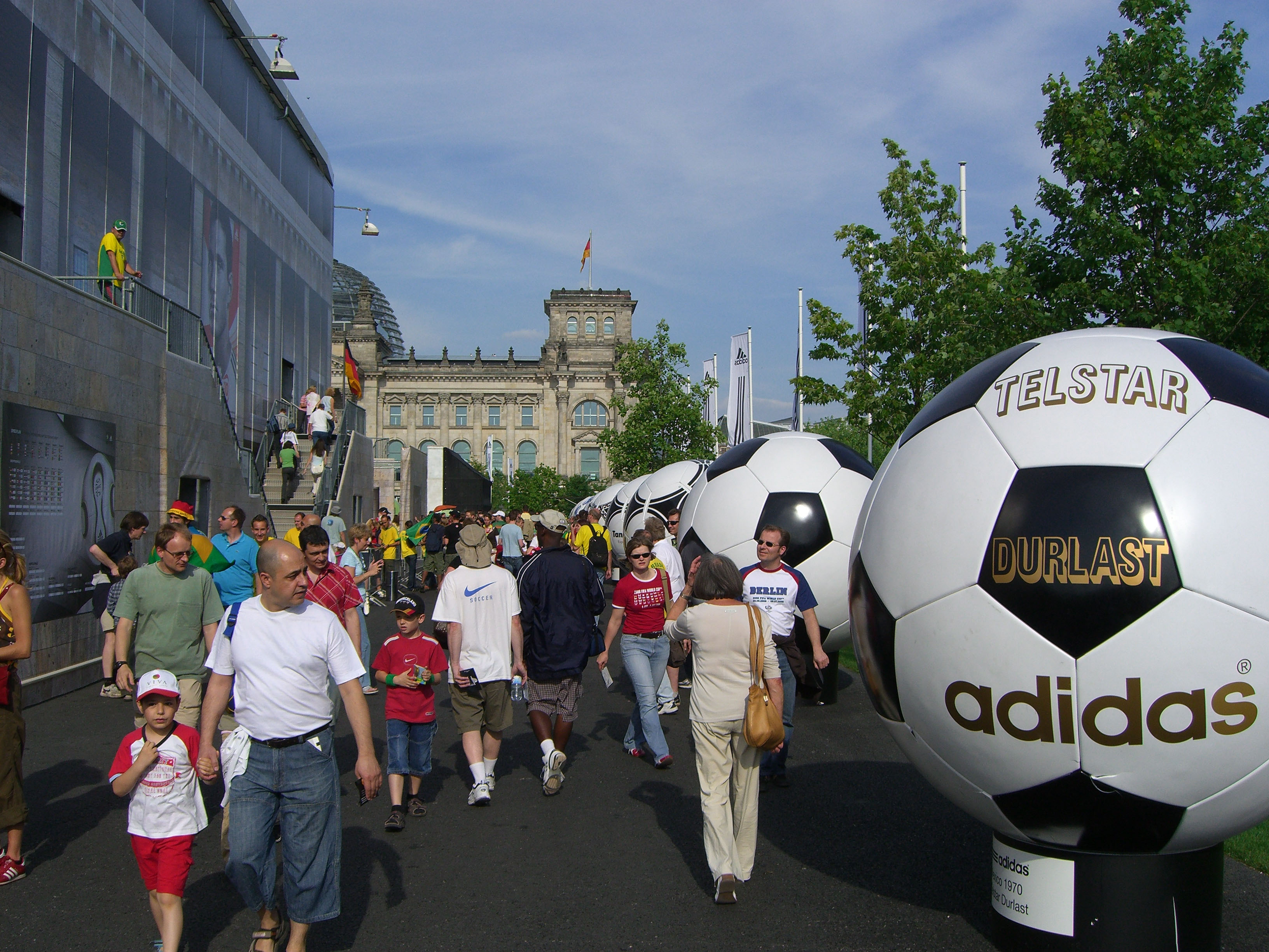 Adidas 'World of Football'; gallery of WorldCup-Balls